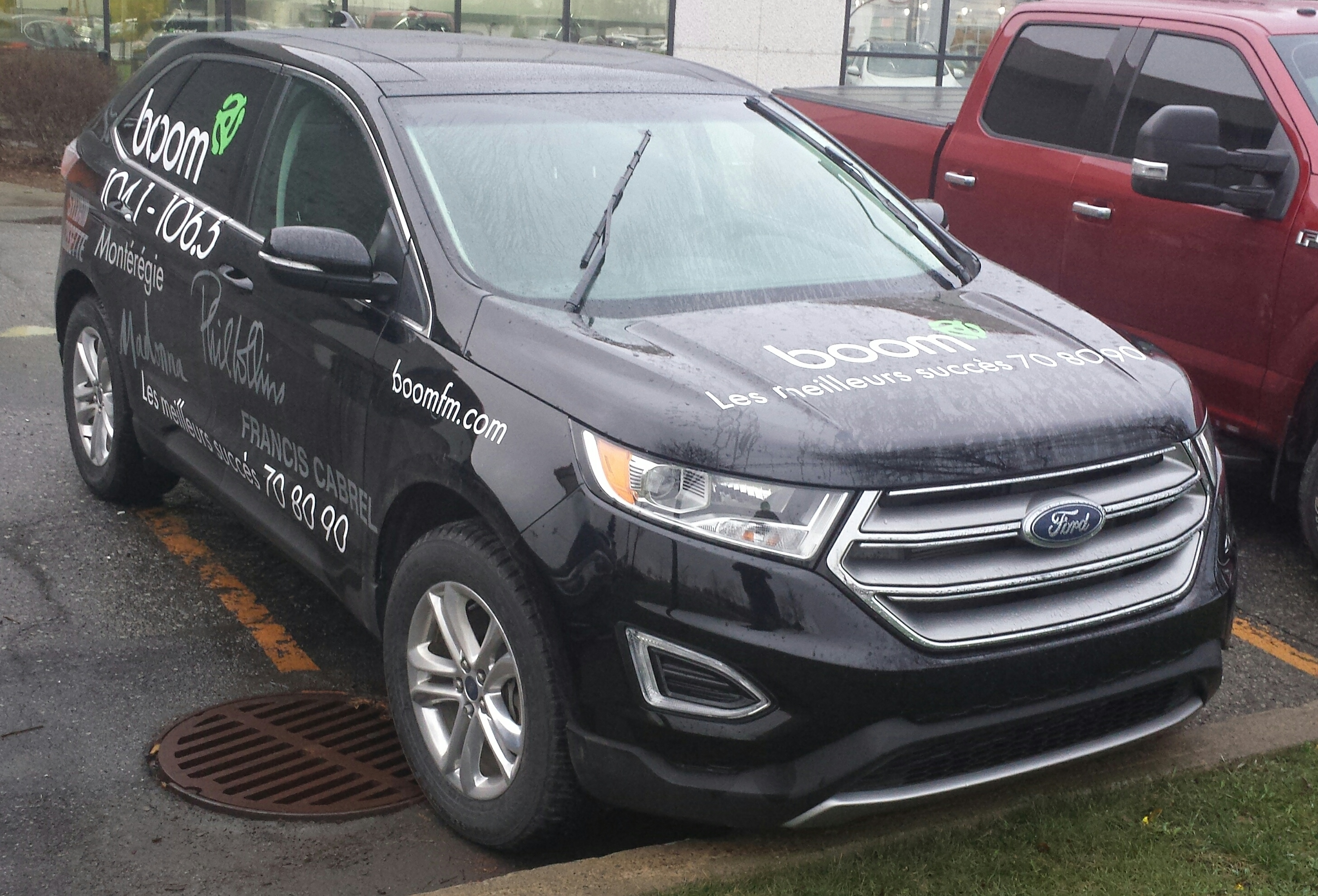 2015-2018 Ford Edge CFZZ-FM & CFEI-FM (Boom 104,1 et 106,5) photographed in Brossard, Québec, Canada.